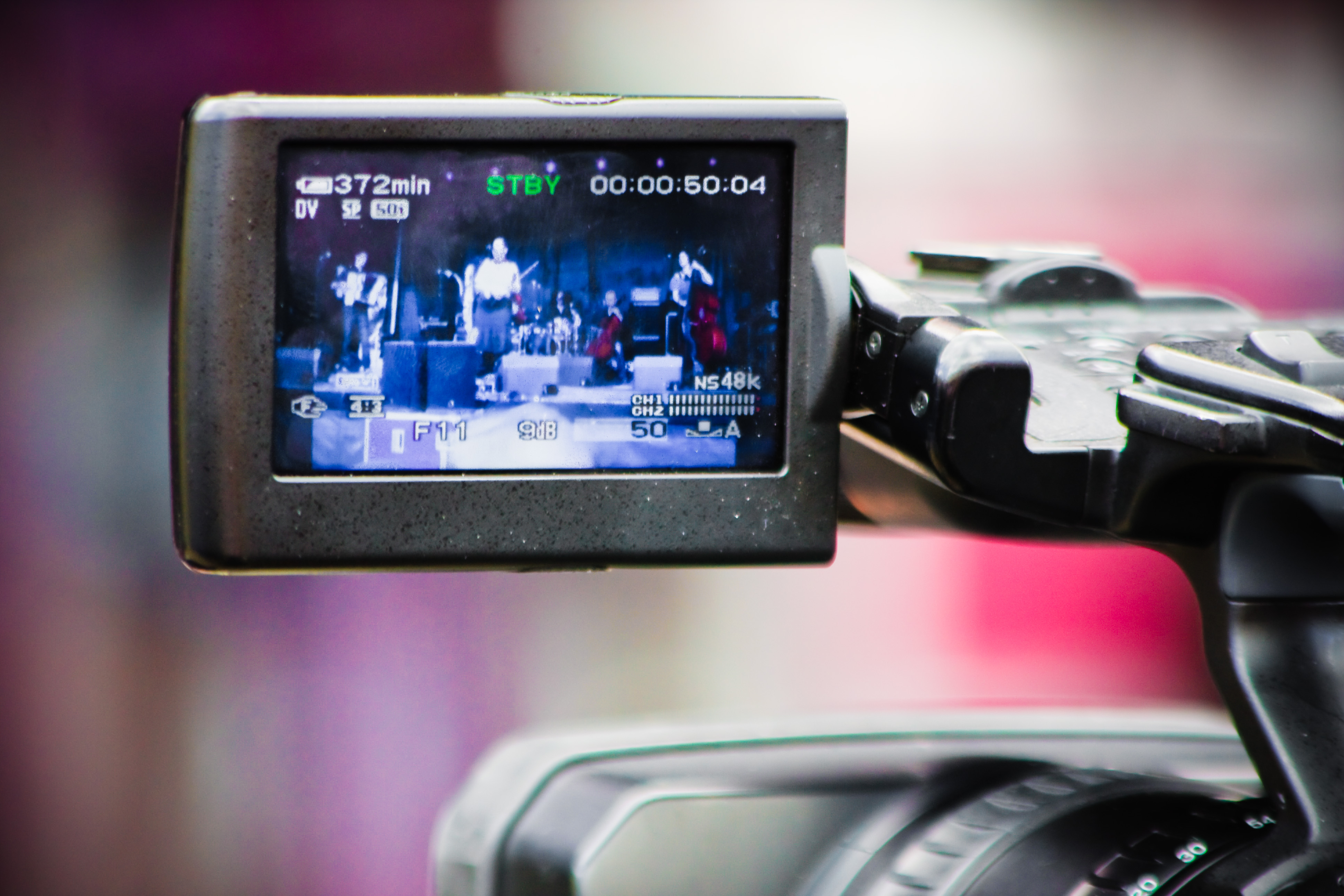 A videocam at the St George's Day celebration in London's Trafalgar Square.